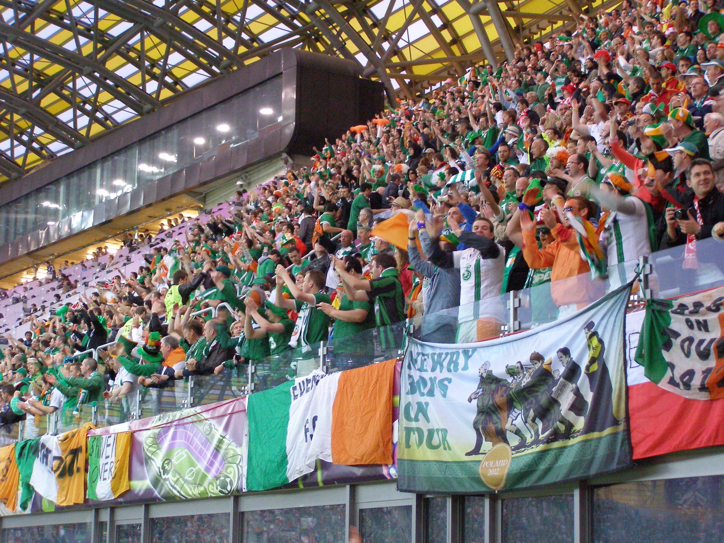 Gdańsk - PGE Arena - Euro 2012 - Group C match Spain - Rep. of Ireland